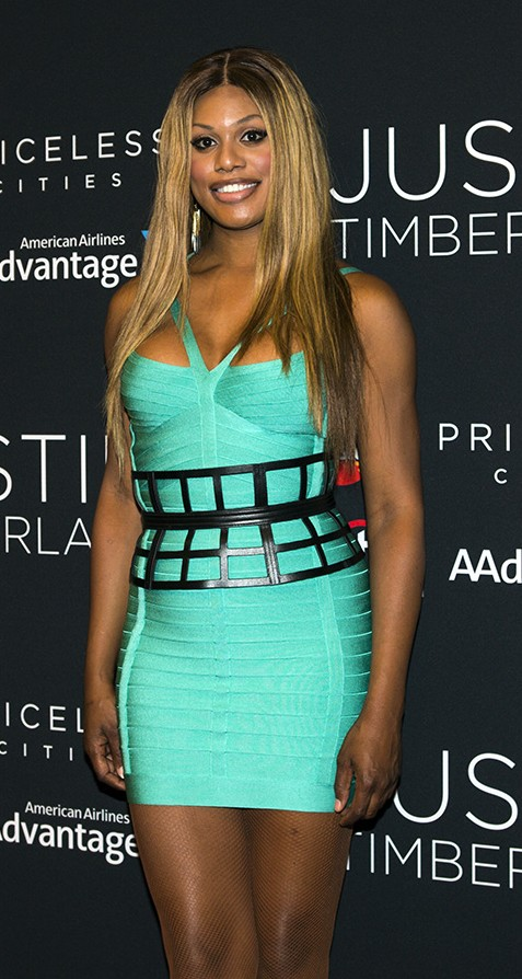 Laverne Cox on the red carpet at the Citi/AAdvantage MasterCard Priceless Access Performance with Justin Timberlake on Thursday, July 10th.